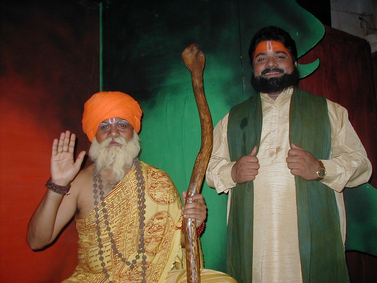 Goa former politician Vishnu Wagh and team stage a performance at their village temple in Tiswadi taluka. Photo shared under the Creative Commons by Frederick Noronha.